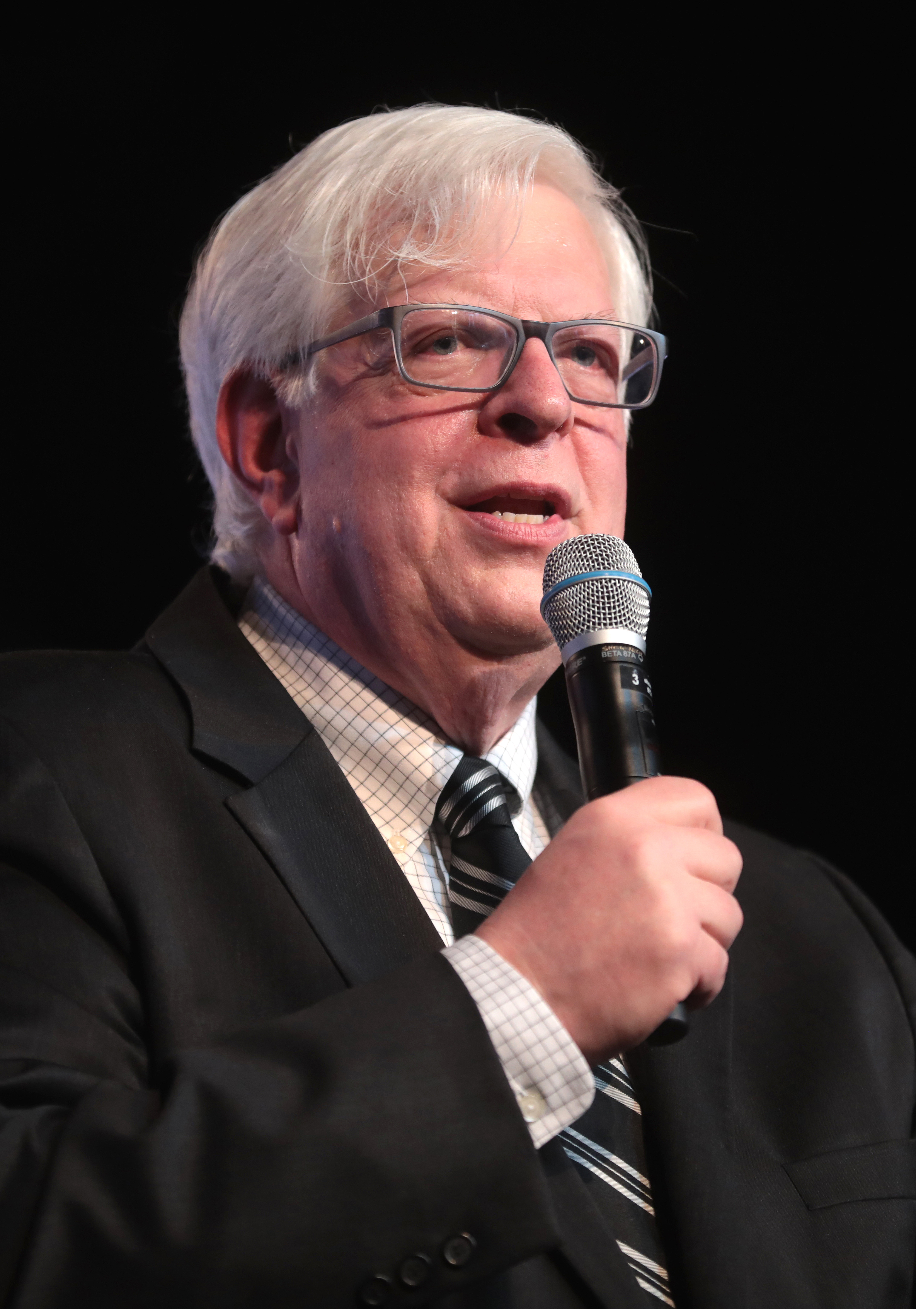 Dennis Prager speaking at an event in West Palm Beach, Florida.